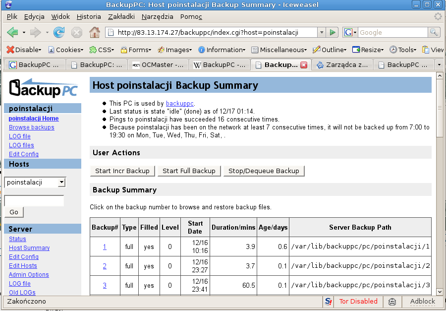 BackupPC version 3.0.0 in English, System tab, rendered on a browser using Polish language.Running on Debian GNU/Linux 4.0, with Polish-language Mozilla Firefox (or IceWeazel).